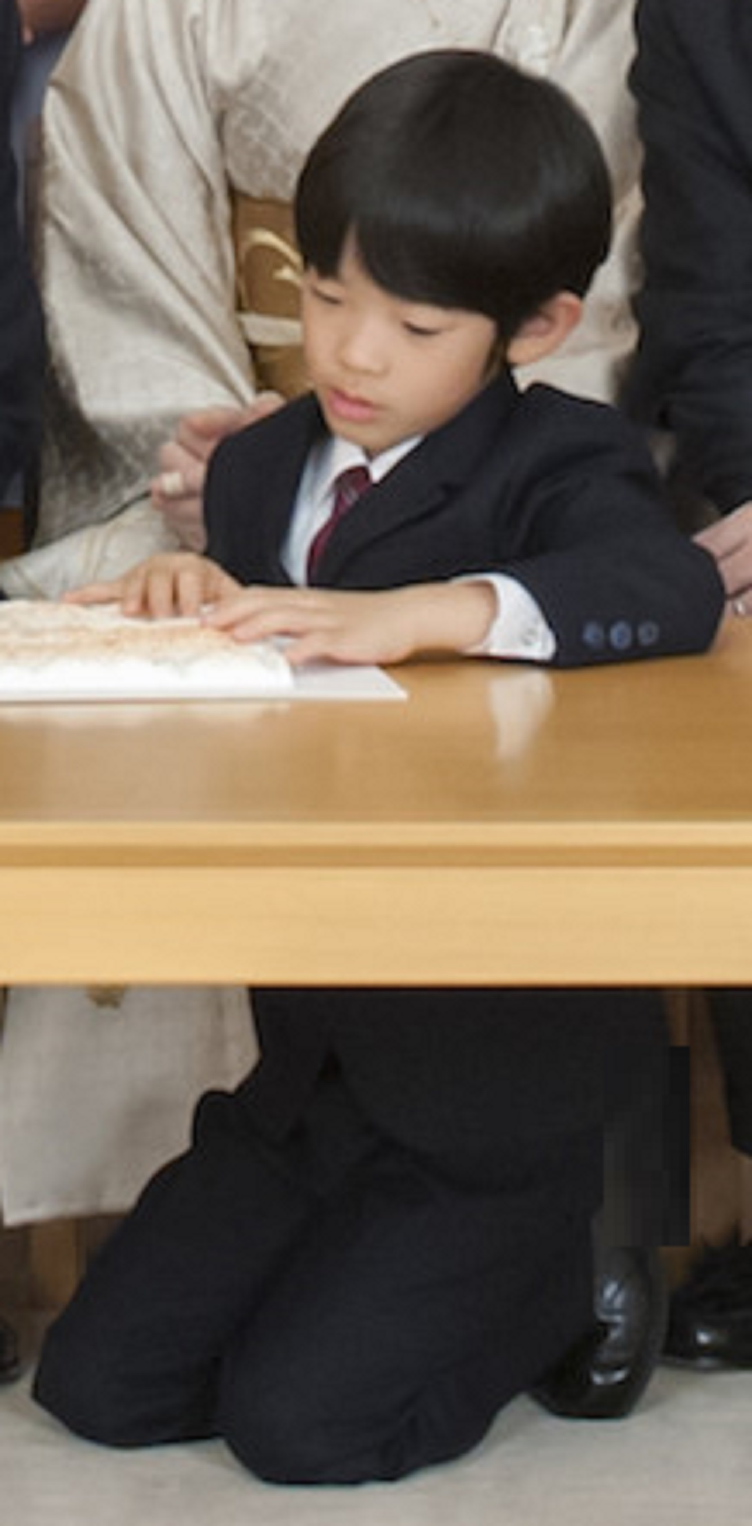 Prince Hisahito of Akishino